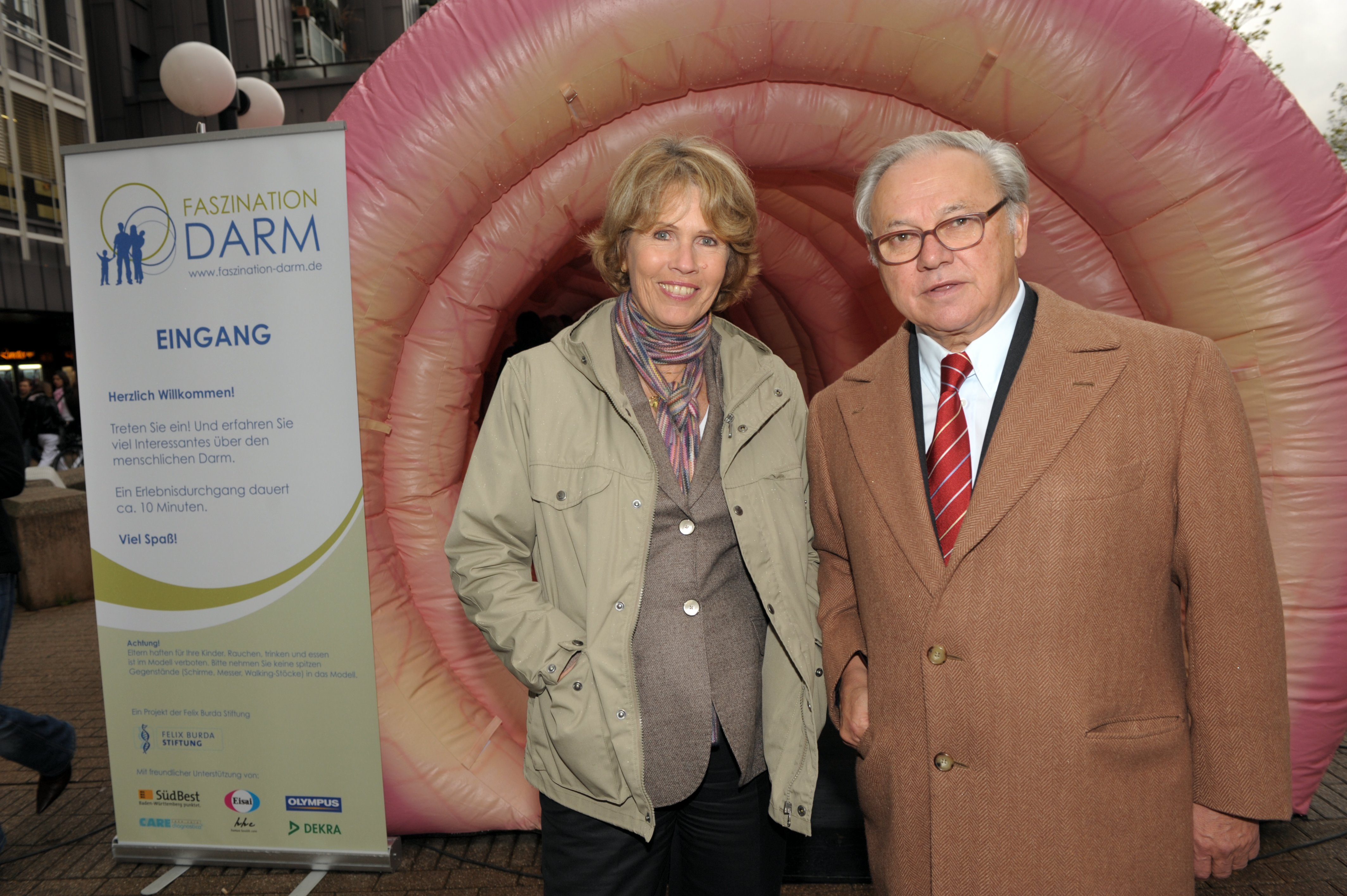 Christa Maar and Hubert burda during opening of Euiropes biggist Colon Model "Faszination Darm" of the felix Burda Foundation on Rosenkavalierplatz in Munich, 28.10.2008. (C)Felix Burda Foundation